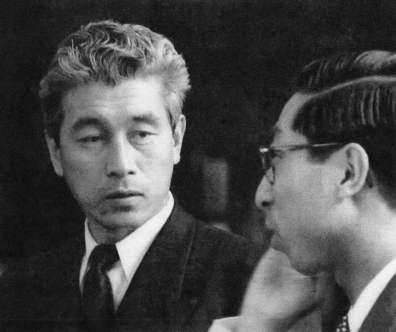 Ichiro Hatta and Prince Mikasa Takahito